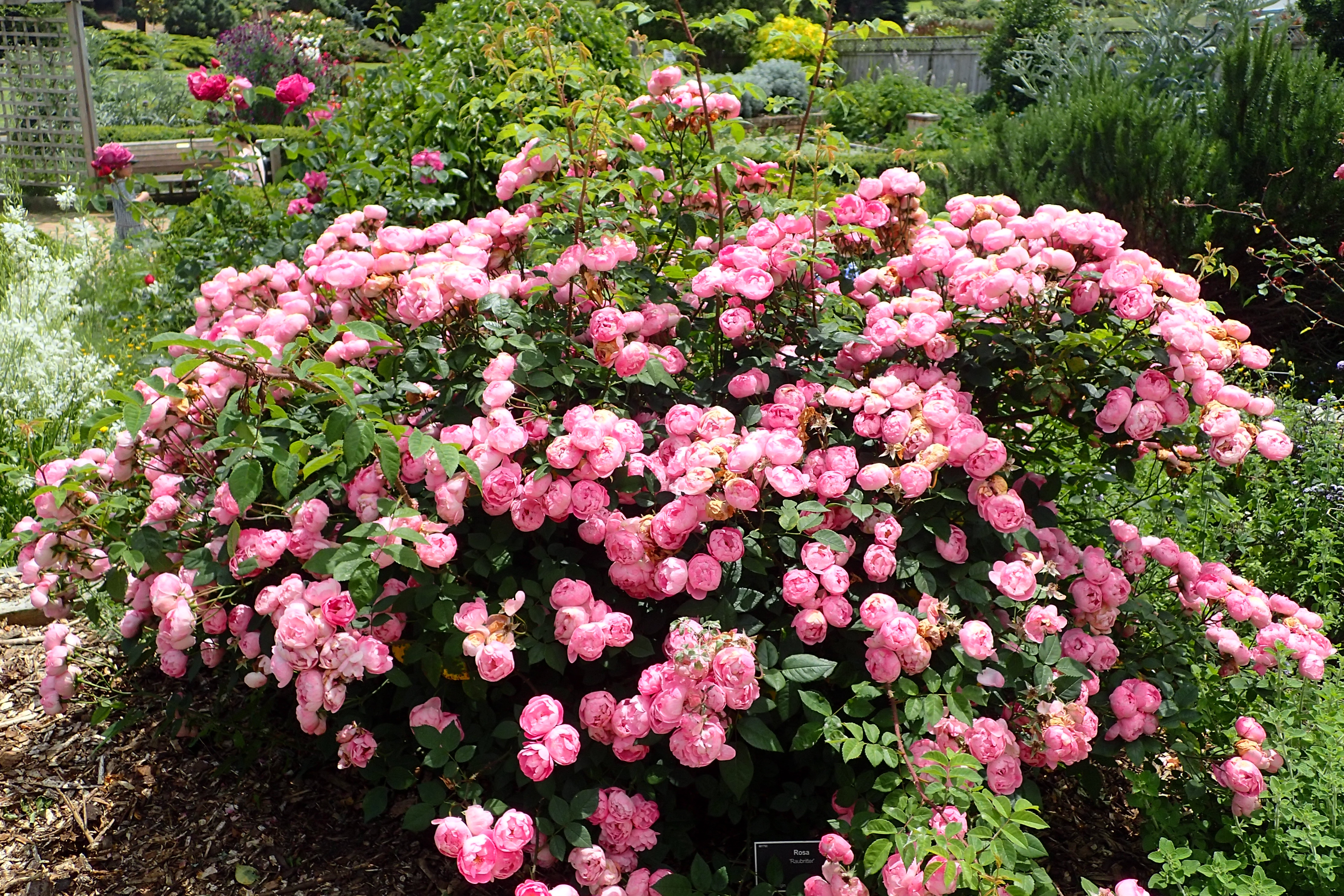 Rosa 'Raubritter' in Auckland Botanic Gardens